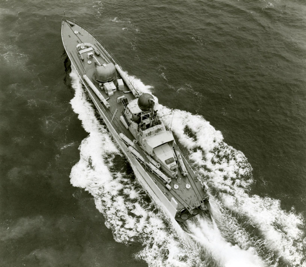 The Swedish Torpedo boat HMS Spica.